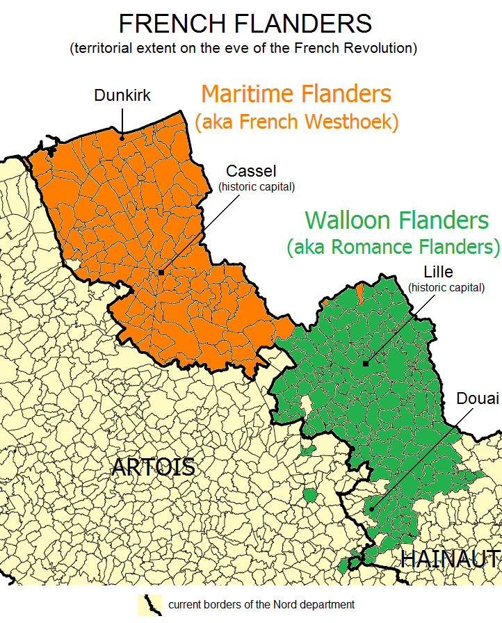 Map of the province of French Flanders with its borders on the eve of 1789, based on État par ordre alphabétique des Villes, Bourgs, Villages & hameaux de la Généralité de Flandres & d'Artois published in 1787.